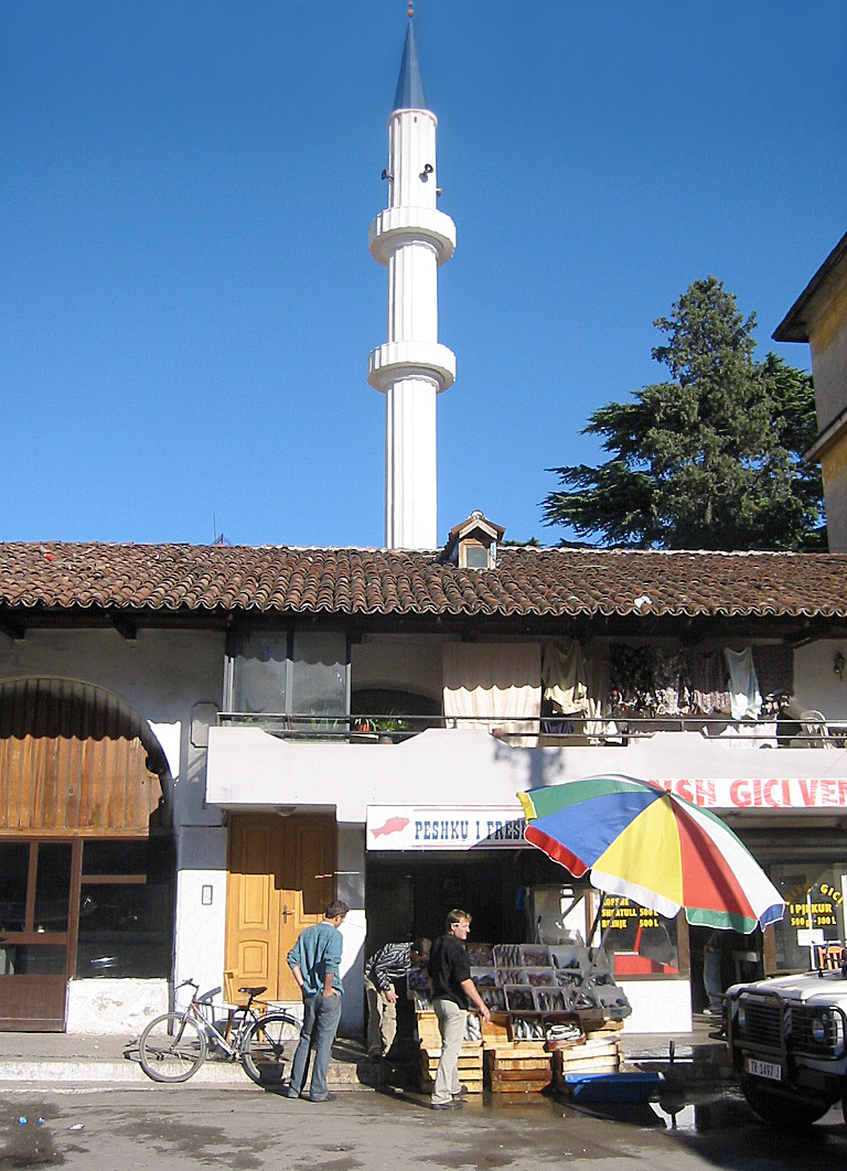 Bazar of Tirana (Pazari i ri) and minarett of Kokonozi Mosque